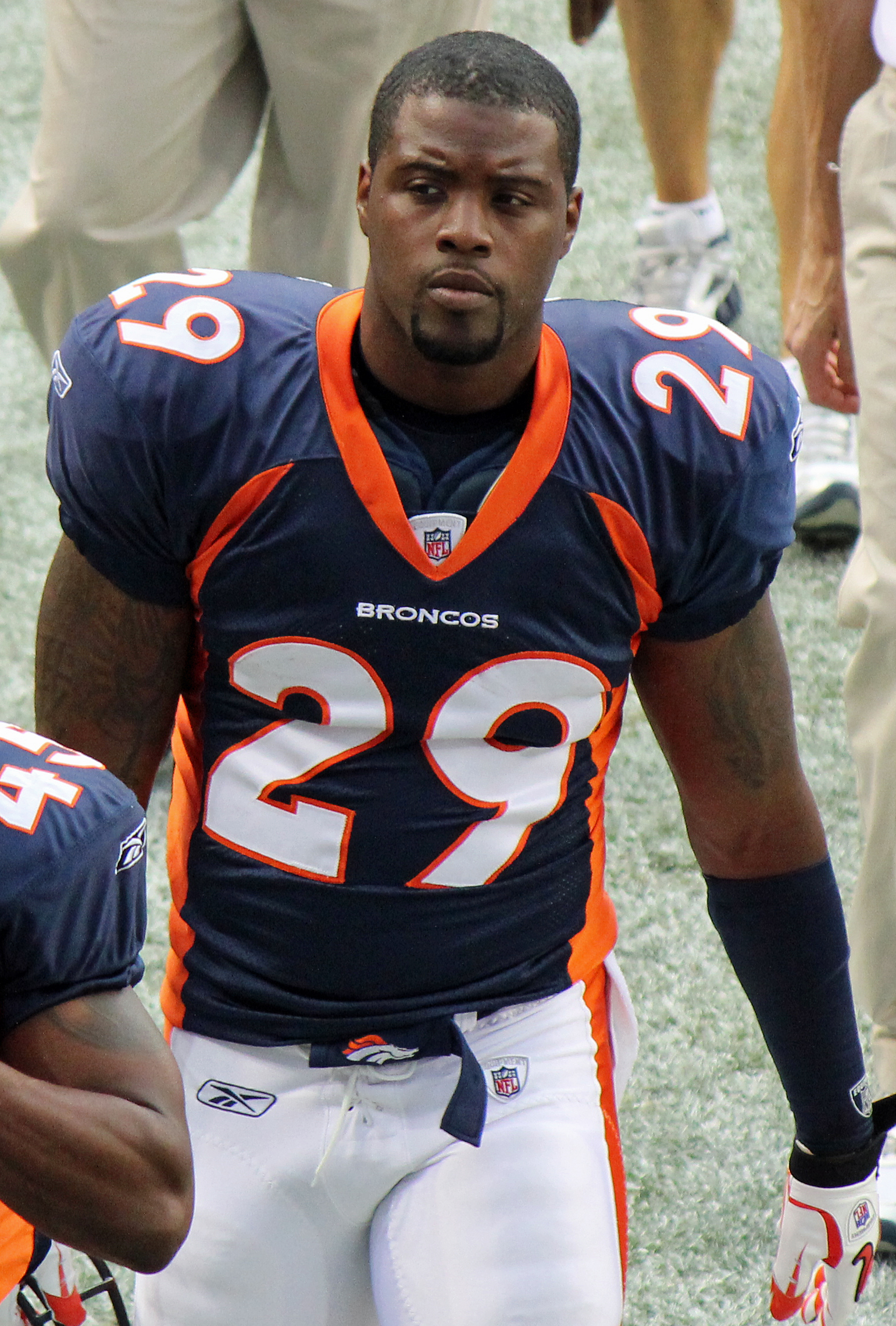 C.J. Gable, a National Football League player.